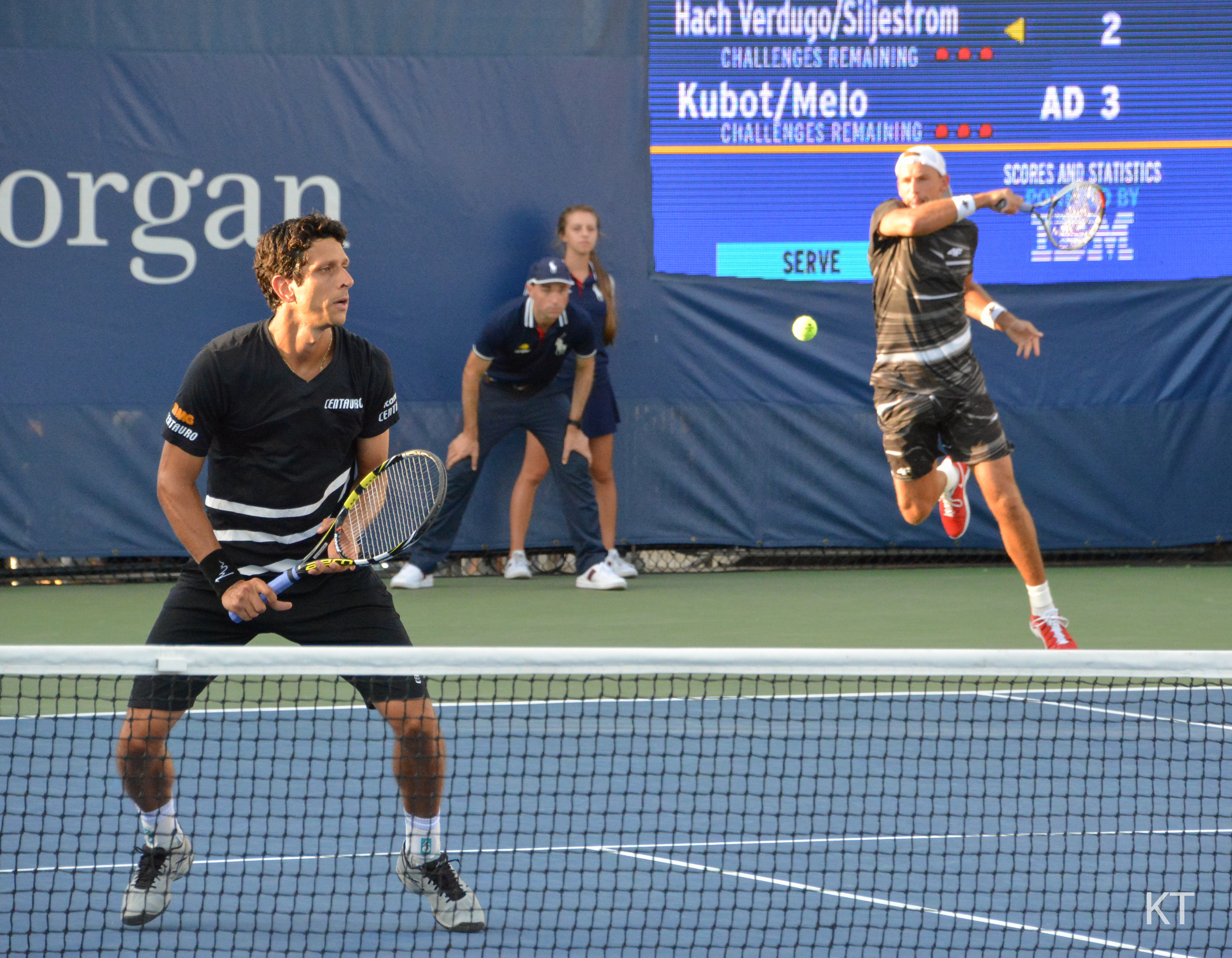 First round of men's doubles. Day 4 of US Open 2018.